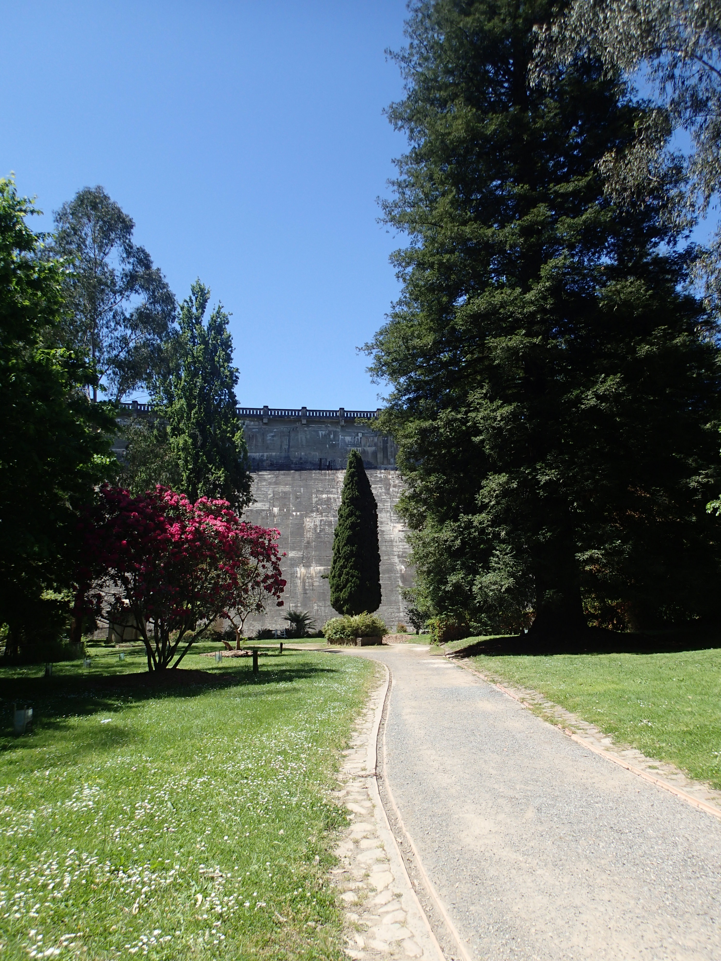 Photograph looking towards the dam wall, and the two valve houses. Note, in particular, Linaker's use of vertical trees.